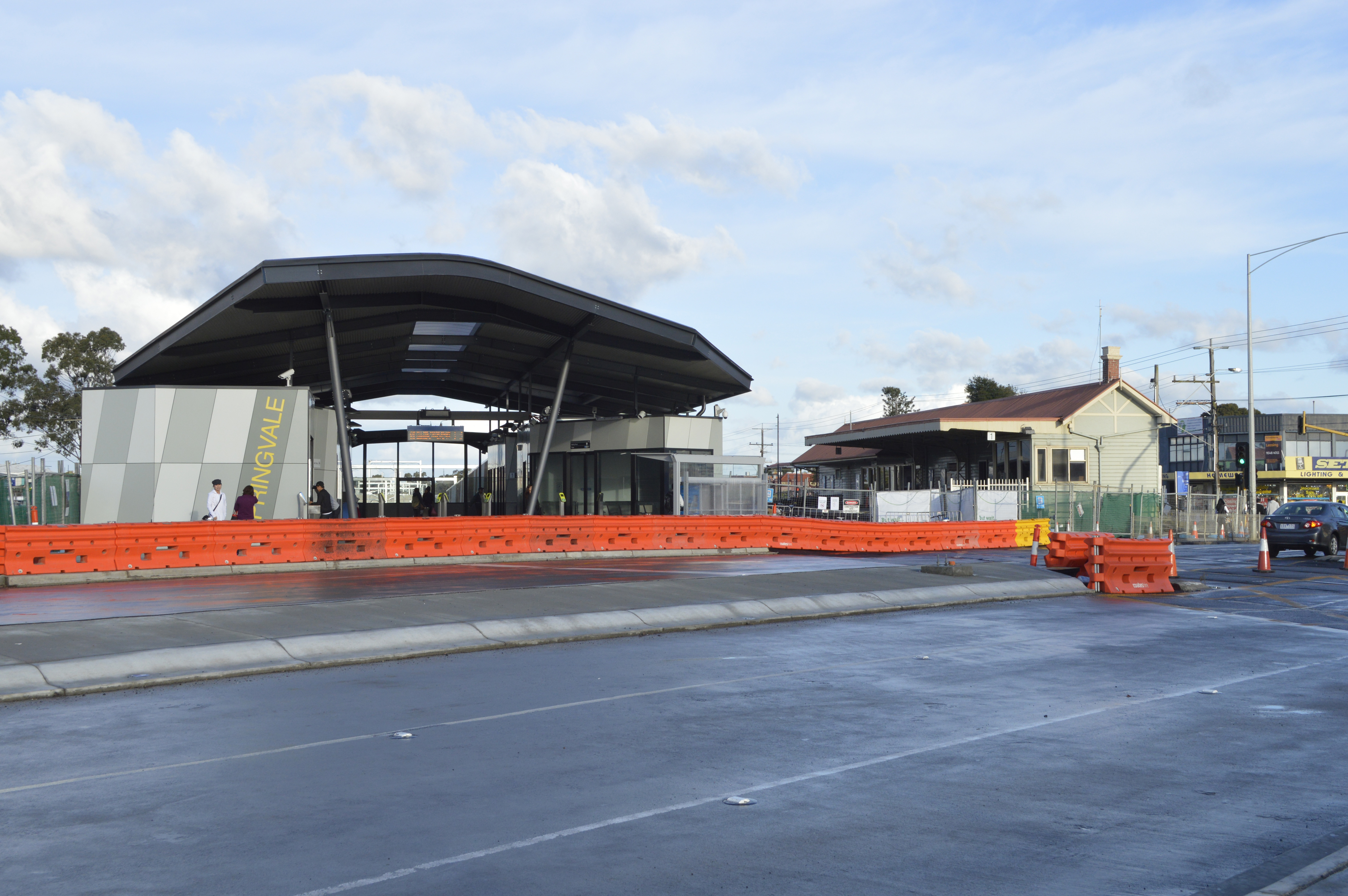 Concourse of the new Springvale station (left) and platform 1 of the old station (right).